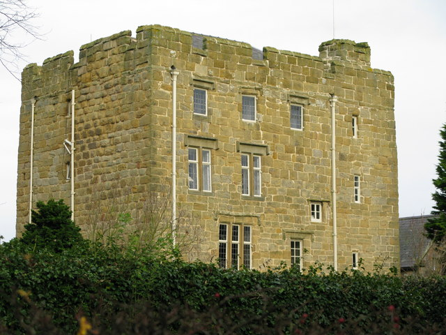 Horsley Tower Horsley Tower (also known as Pele Tower), was built probably as late as the reign of Henry VII for the Horsleys of knightly rank. The existing building is a fine specimen of a strongly fortified tower of the fifteenth century, with a slight addition of a later period. It has a fine view to the coast and North West. A beacon, lighted on the summit of the tower at night, would be clearly seen far out at sea and would be plainly visible from the hilltops above Rothbury. Built in times of battle, as a defence against raiding Scots from across the border. It is possible that there was a building on the same site which fell into disrepair and was rebuilt as the present Tower of Longhorsley, which was destined to become, in later days, the peaceful home of the catholic clergy of the Village.